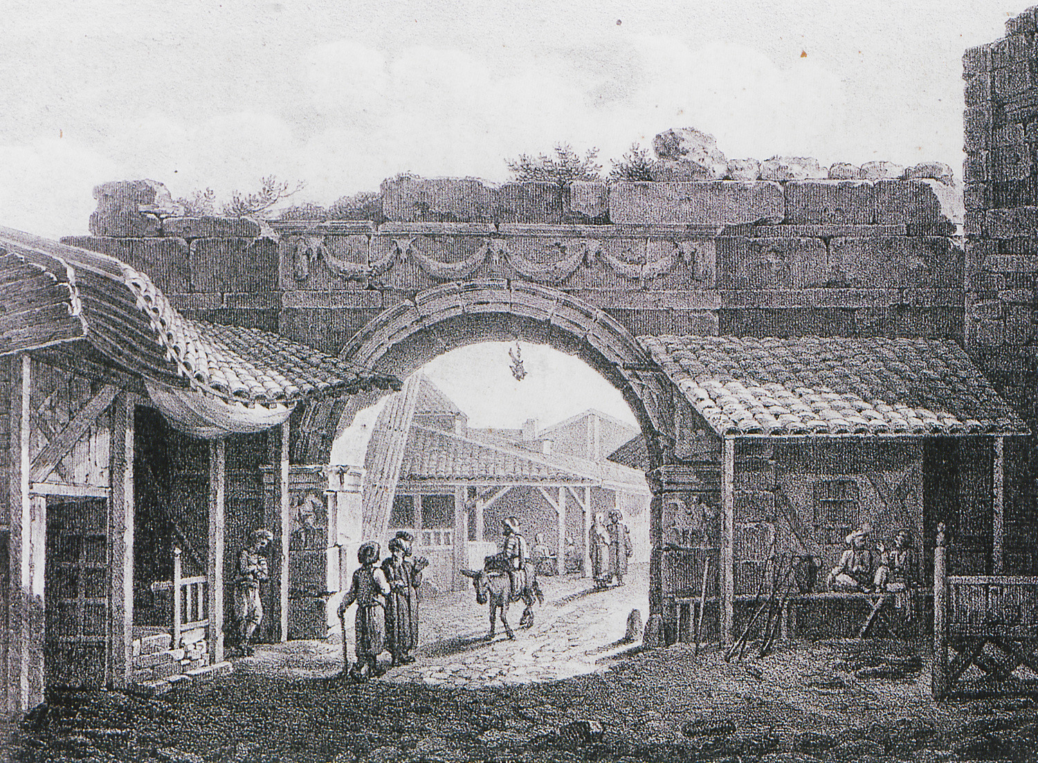 Golden Gate or Axios (Vardar) Gate in Thessaloniki. From: E. M. Cousinéry, Voyage dans la Macédoine, Paris, 1831